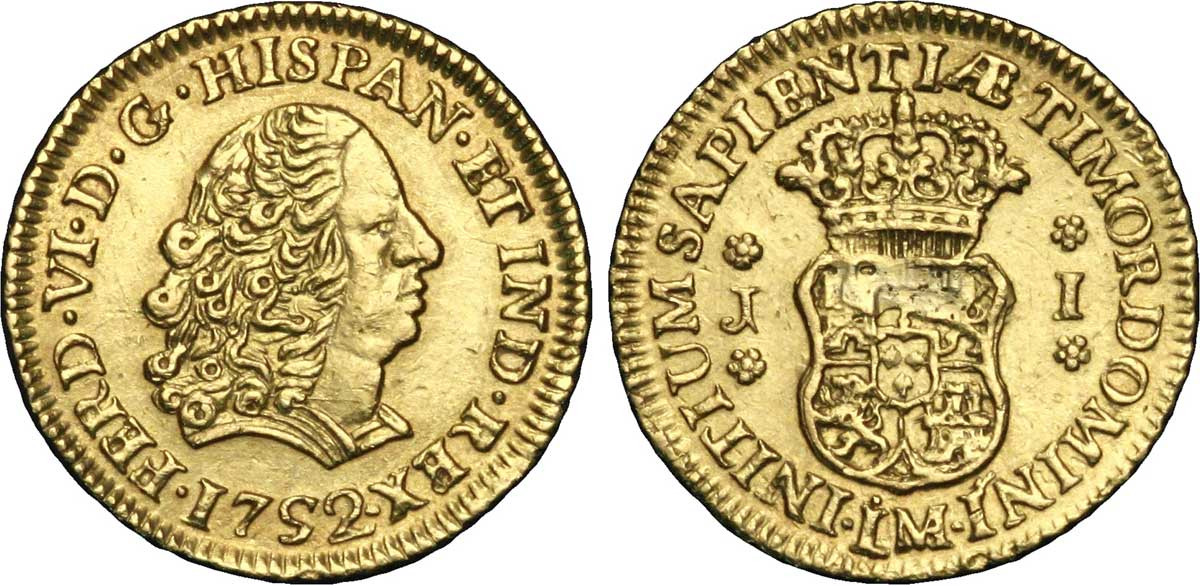 Un escudo à l'effigie de Ferdinand VI, 1752